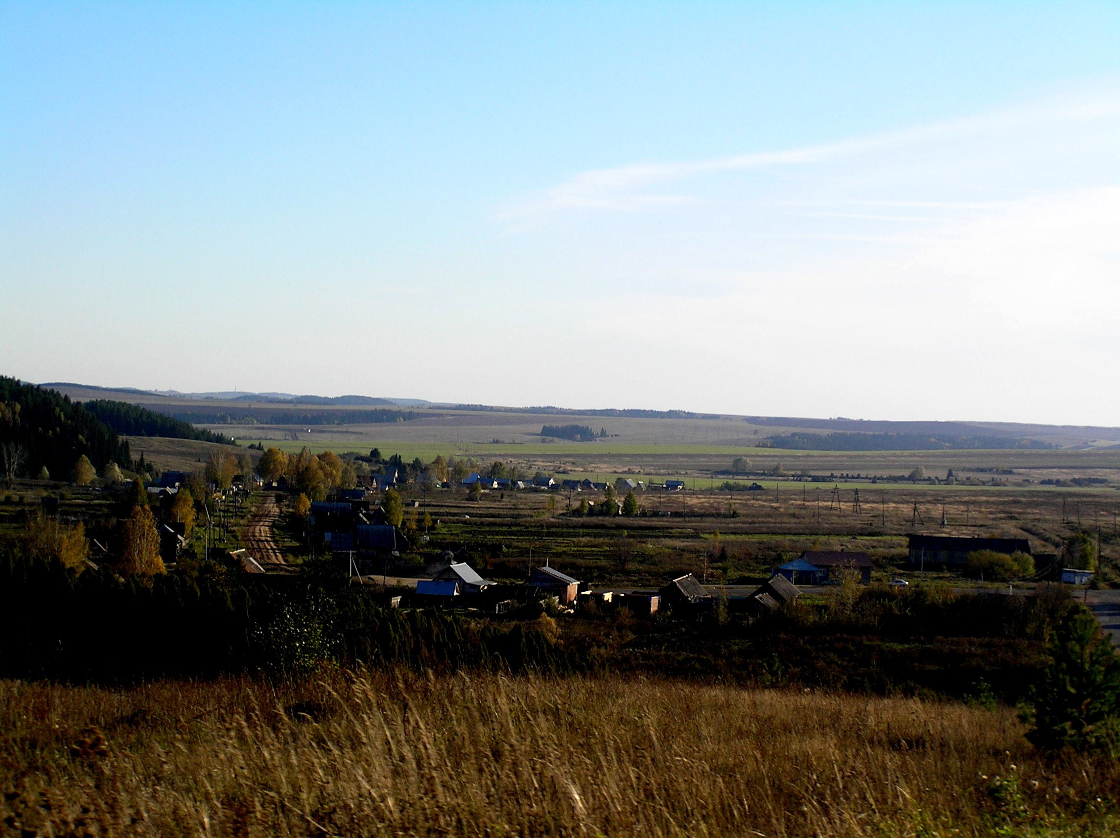 Zabegalovo village